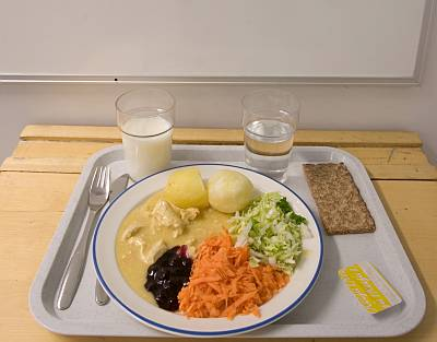 Example of Finnish school lunch. Probably (counterclockwise from bottom): carrot, cabbage or lettuce, boiled potatoes, chicken and lingonberry jam, accompanied by milk, water, crisp bread and margarine.